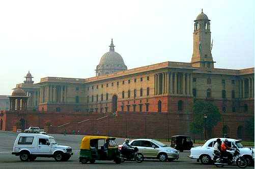 South Block in Delhi